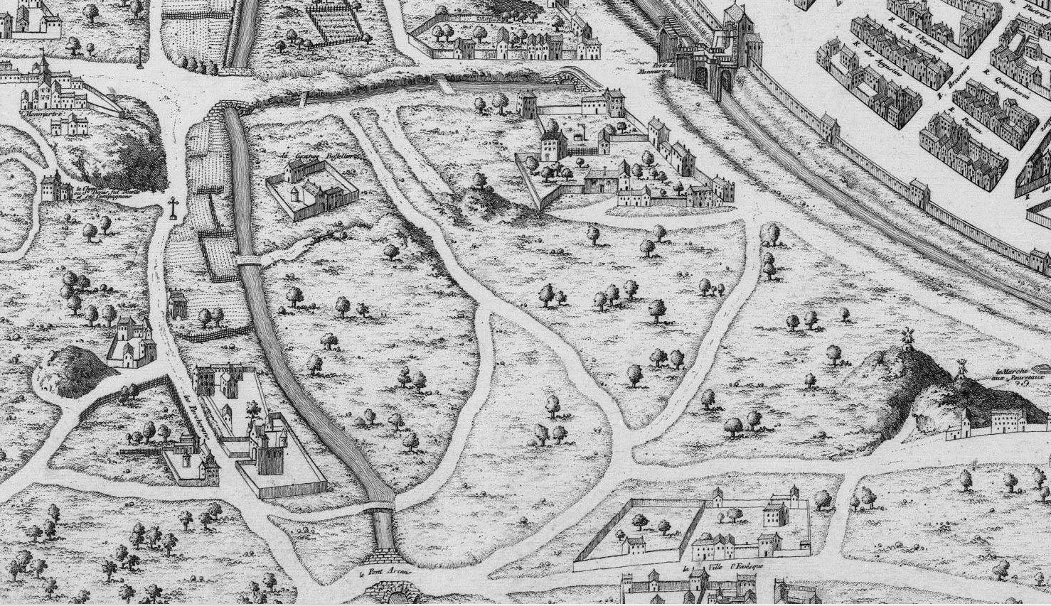 North-west corner (left bottom) on the map of Dheulland (1552) with the porte Montmartre, Ferme de la Grange-Batelière, the Château des Porcherons and Arcans bridge over the ruisseau de Ménilmontant - Grand Égout between them. We see also the chapelle des Martyrs and the church Saint-Pierre de Montmartre. The scale is deformed in order to put them on the plan, because they are more in the north (on the left).